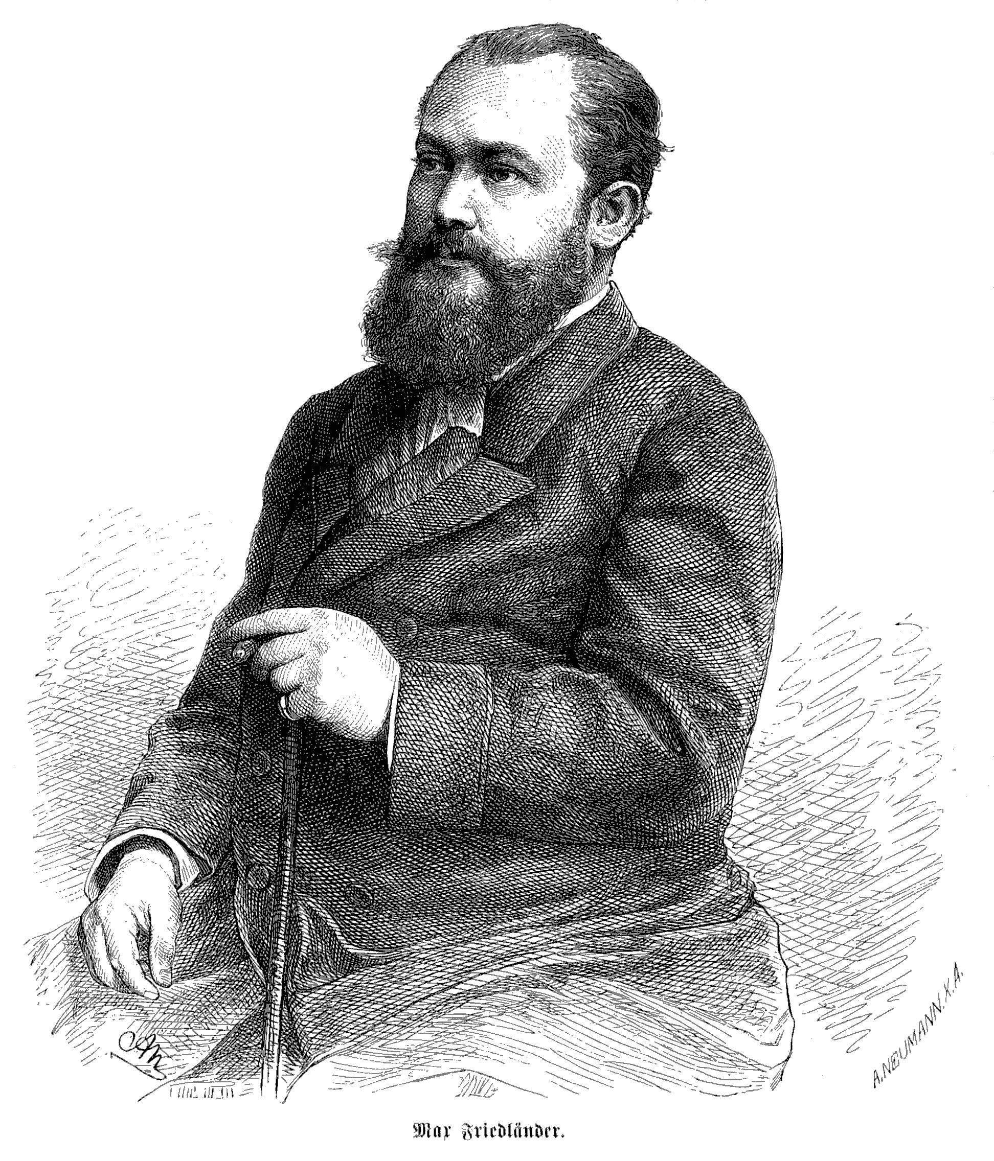 Max Friedländer. Image from page 467 of journal Die Gartenlaube, 1872.